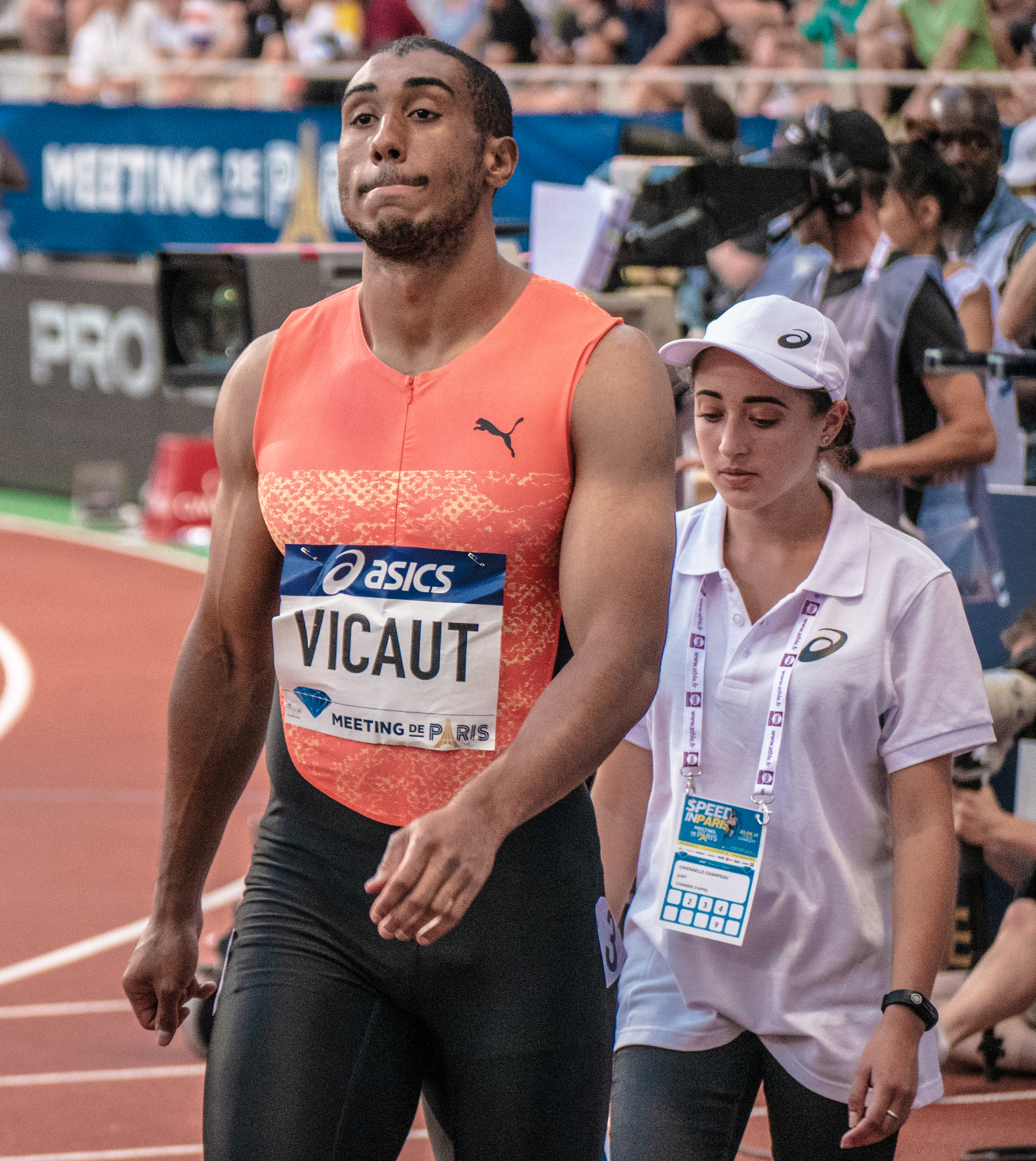 Jimmy Vicaut